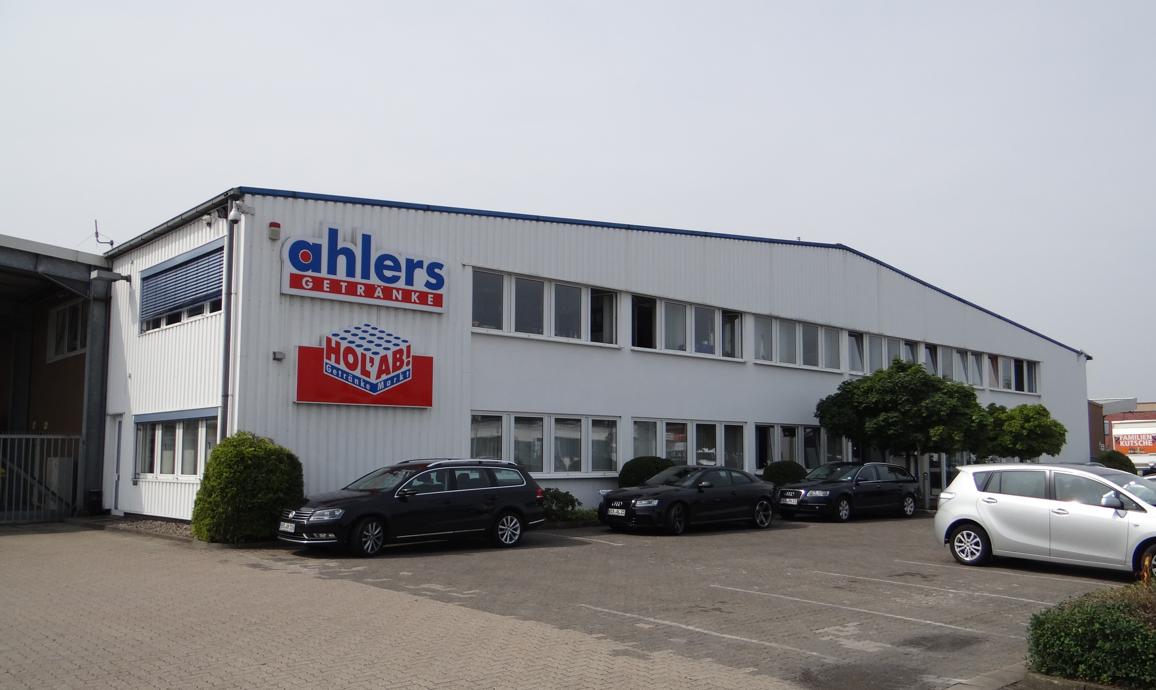 Beverage wholesaler Getränke Ahlers in Achim near Bremen, Germany.